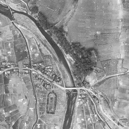 Hanazura-inari-jinja.